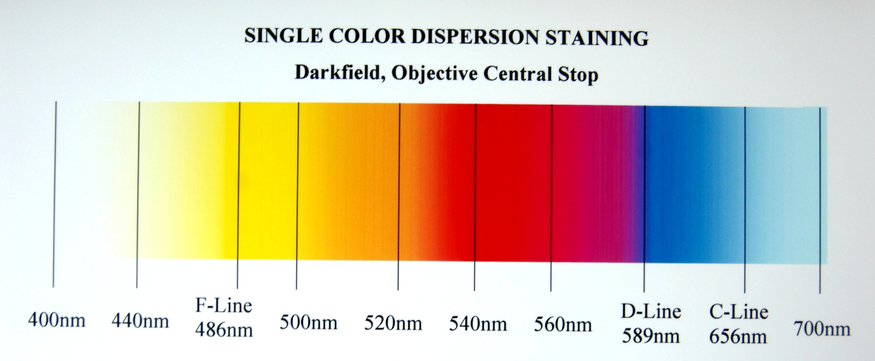 This chart shows the dispersion staining color pairs for various matching refractive index wavelengths